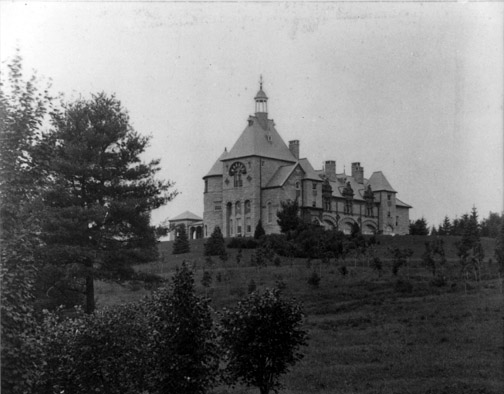 Tenney Castle Greycourt, Methuen, MA - Estate of Charles H. Tenney